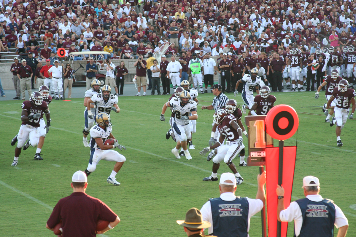 First game of the 2007 season